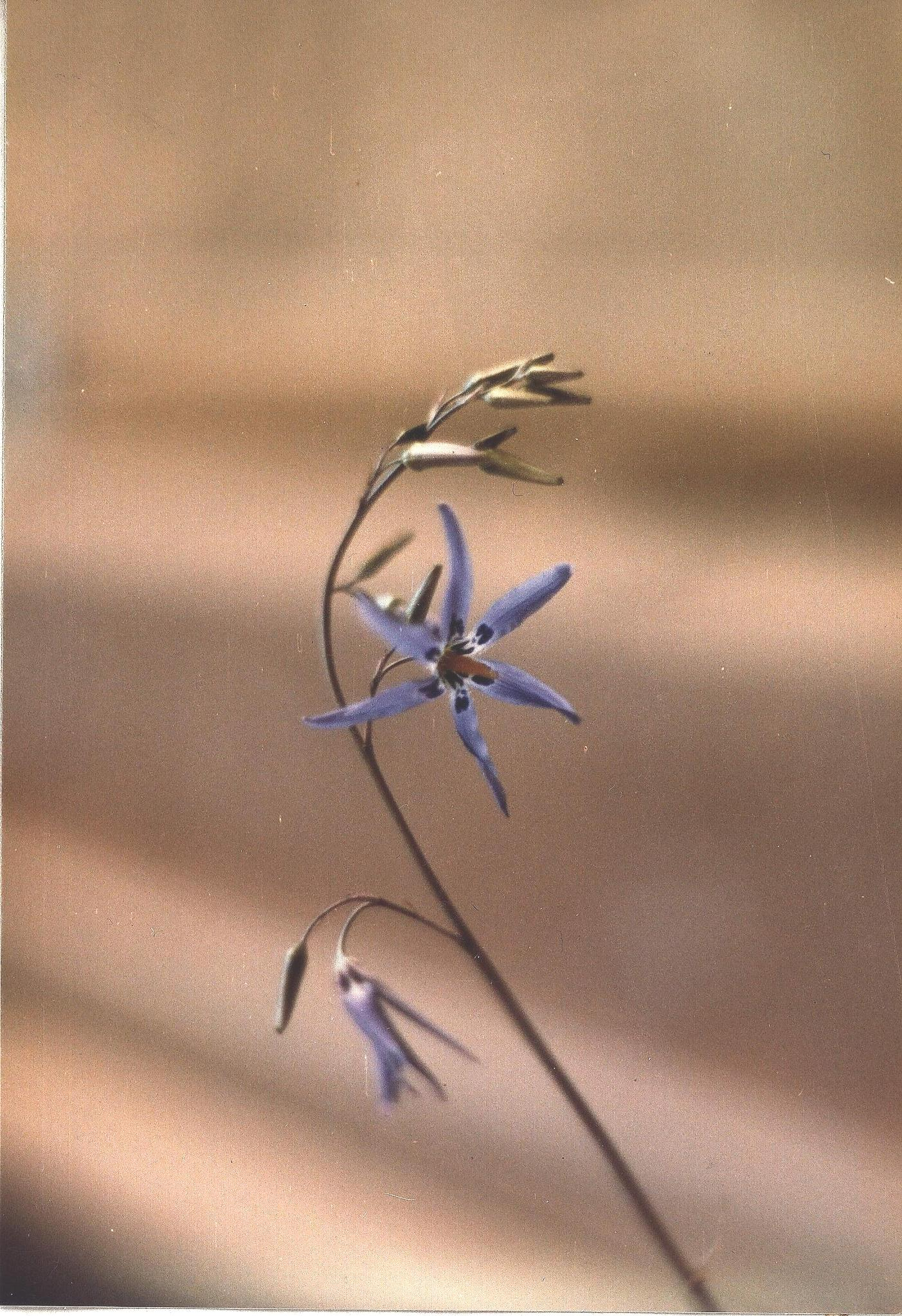 Conanthera bifolia (flower detail) the same work at english upload, and posted in Tecophilaeaceae